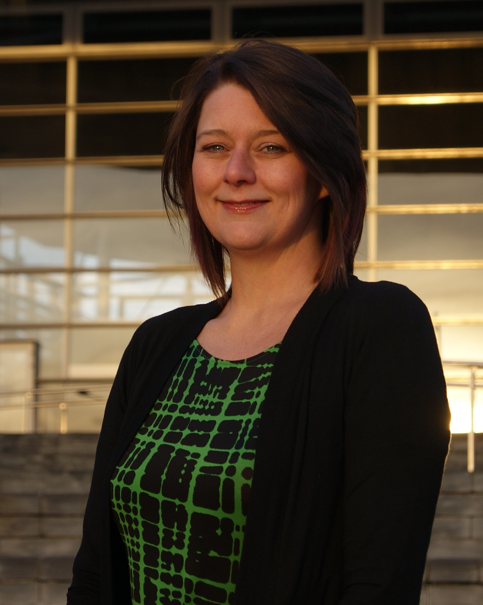 Portrait of Leanne Wood